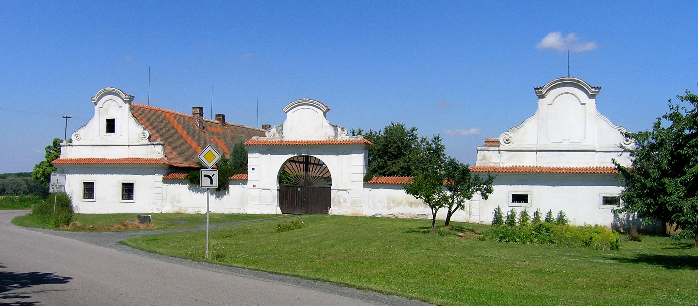 Coaching inn in Markovice, part of Žleby, Czech Republic